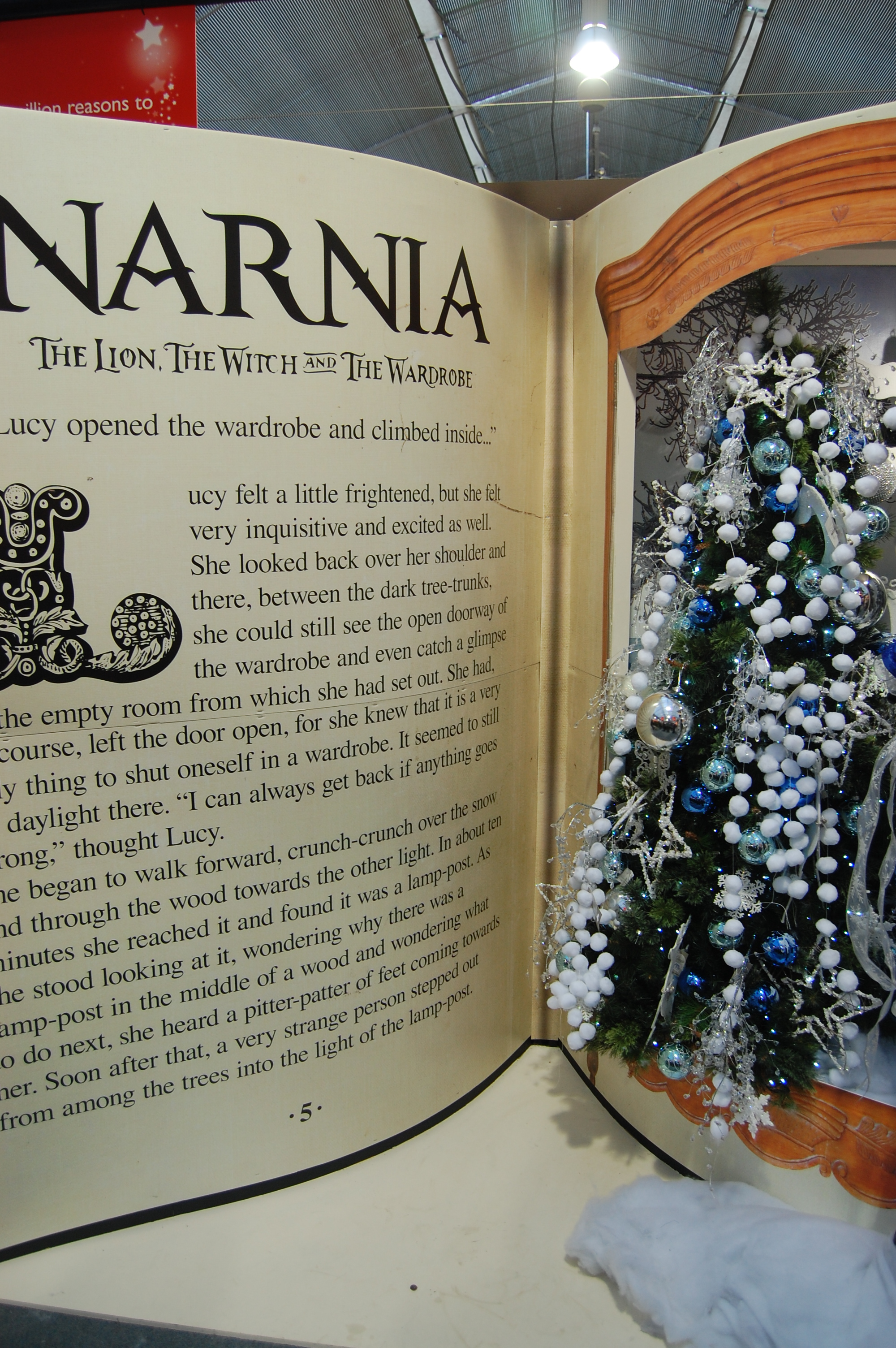 Christmas display at Melbicks garden centre, Coleshill, England.